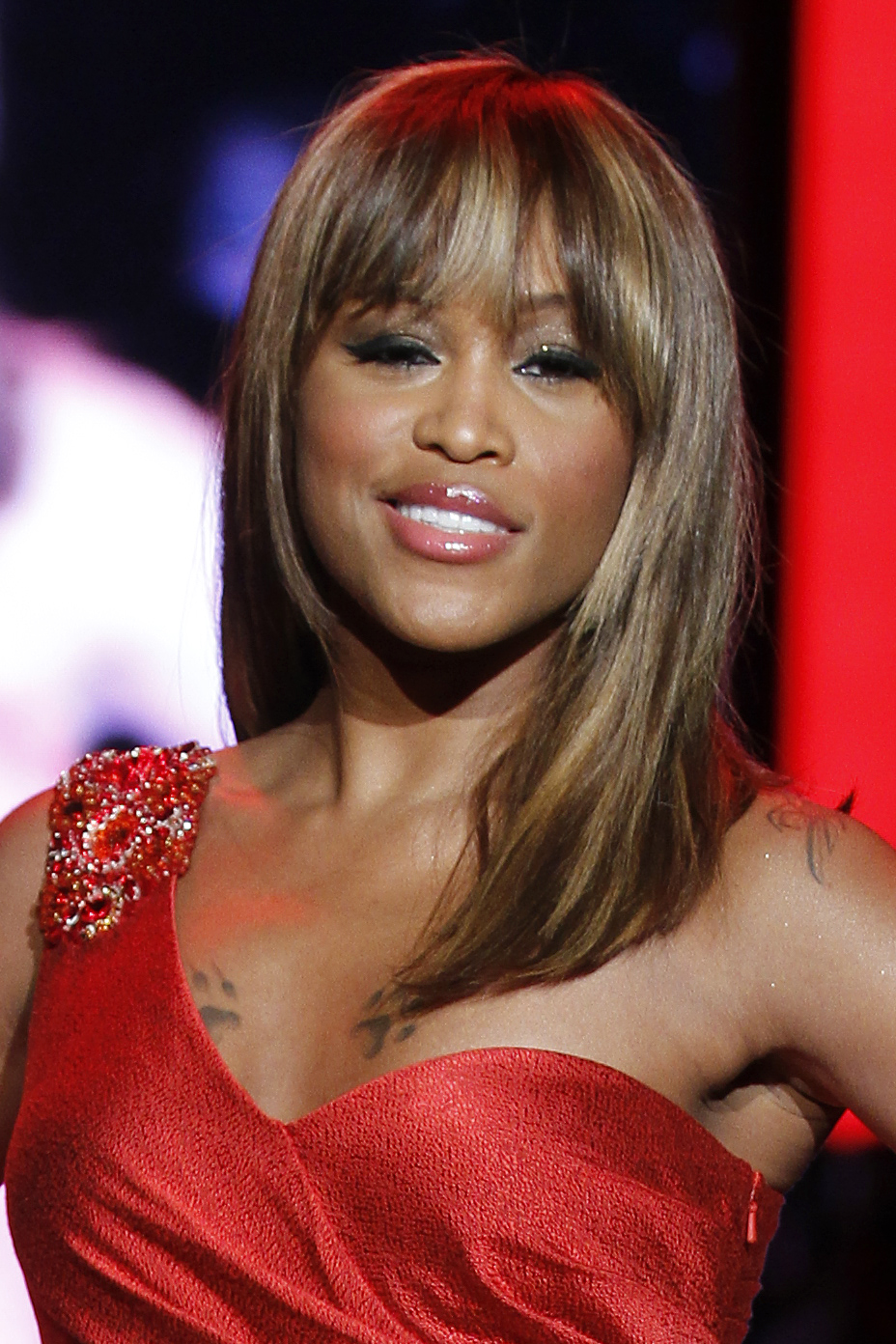 Eve in Oscar de la Renta 2011.